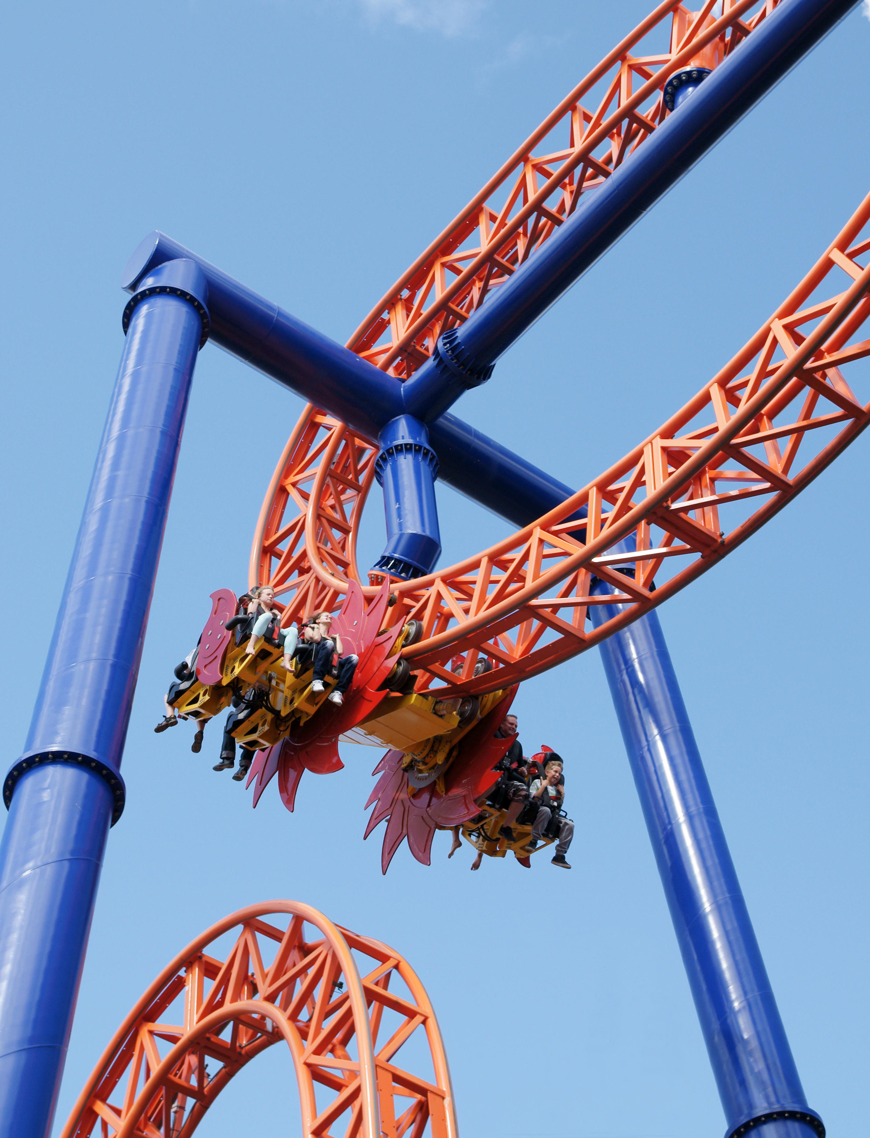 Kirnu, a steel roller coaster in Linnanmäki.